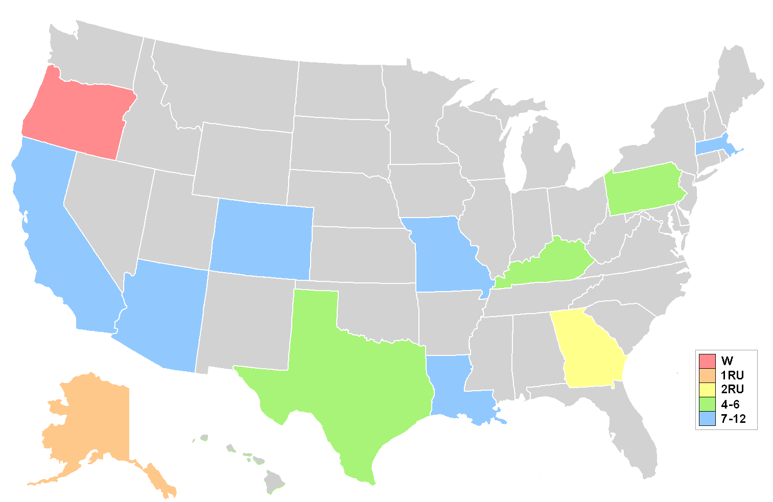 Map showing placements at the Miss Teen USA 1990 pageant. Key on graphic shows colour coding for break down of placements.